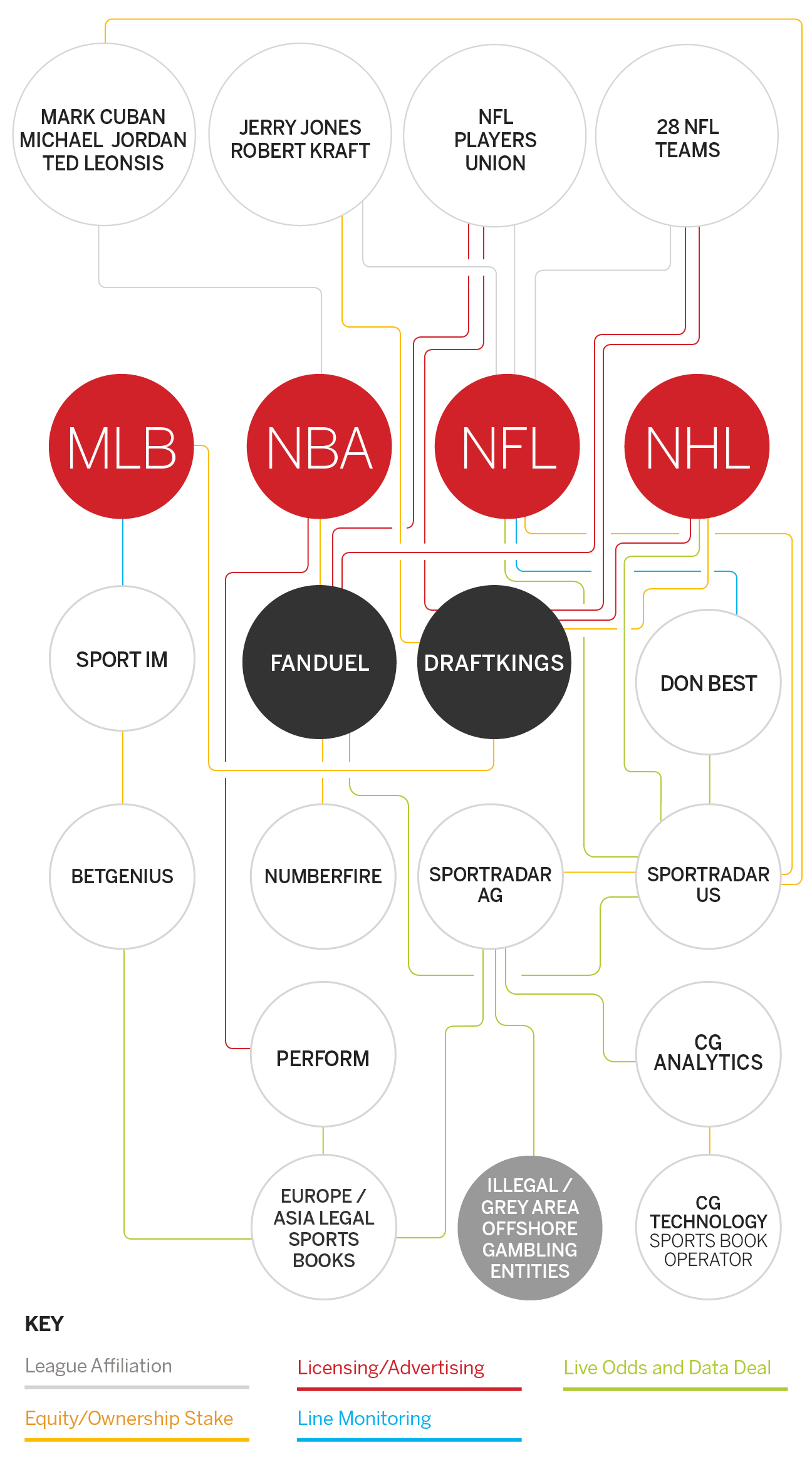 Major deals with daily fantasy sports websites